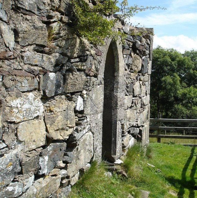 West wall of St Columba's church, Gartan, Donegal; Gartan is said to be the birthplace of Columba